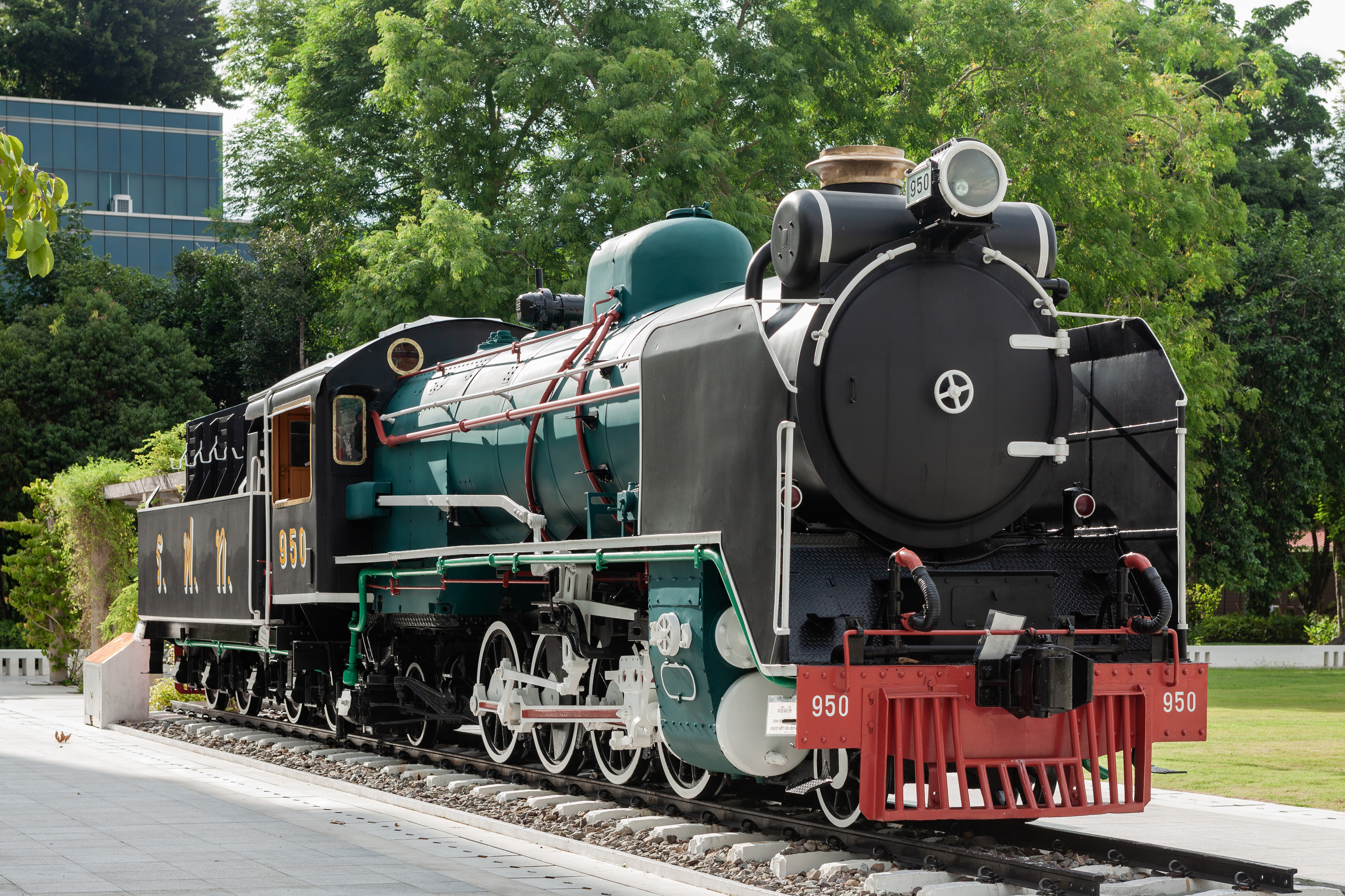 JNR Class DX50 or DX50 steam locomotive located in Siriraj Park, Bangkok.